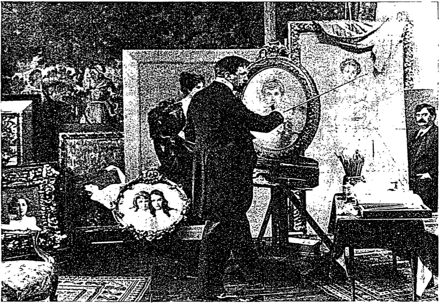 George Burroughs Torrey in his studio. The portraits are: (behind the artist on his left) Madame Simpson, next portrait bust of Mrs. Gen. Burnett, formerly Miss Agnes Tailer, next large painting of standing lady in white portrait of his wife Mrs. Torrey, all to the right portrait of Judge Truax of New York.